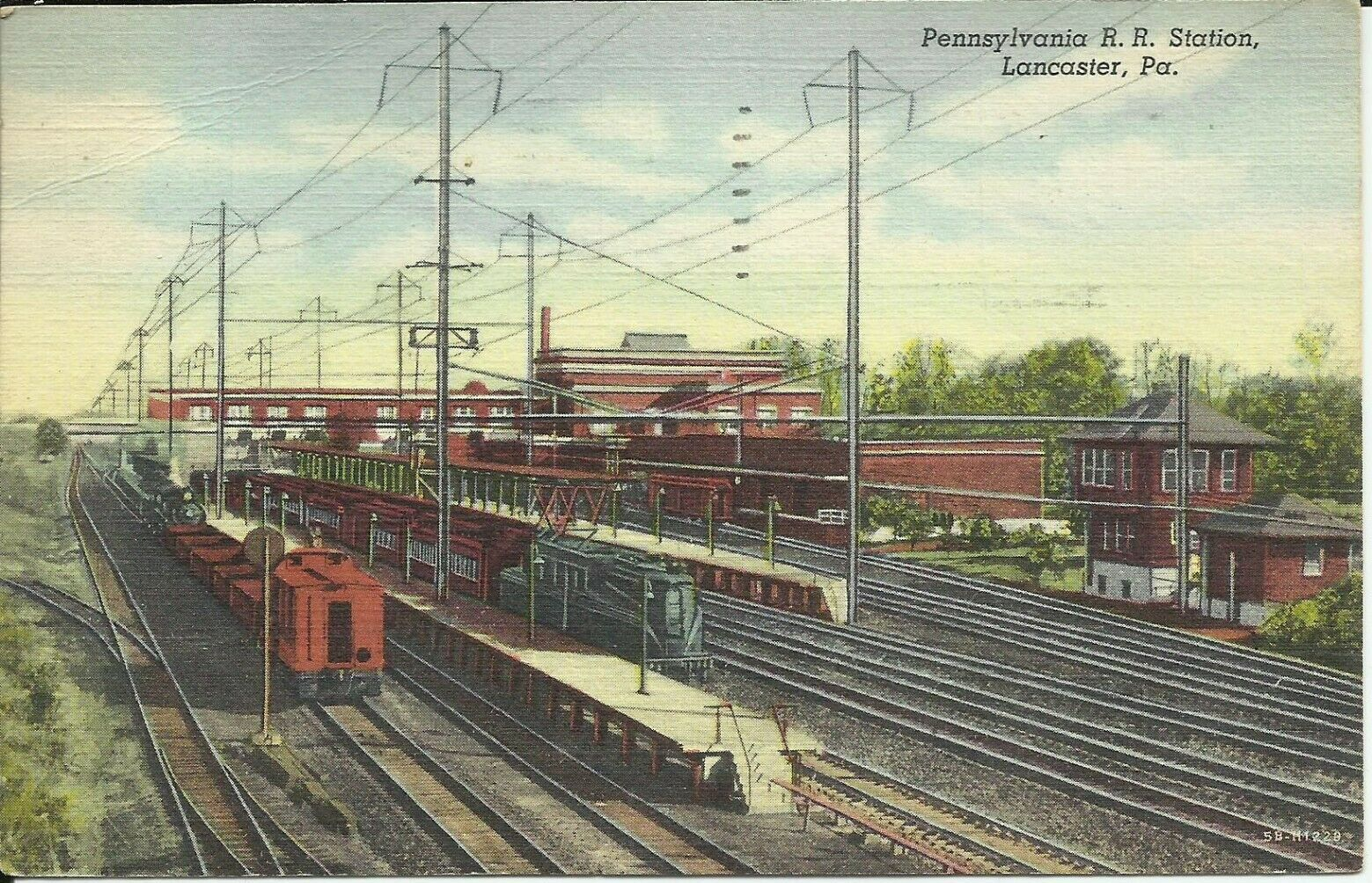 1949-postmarked postcard of Lancaster station